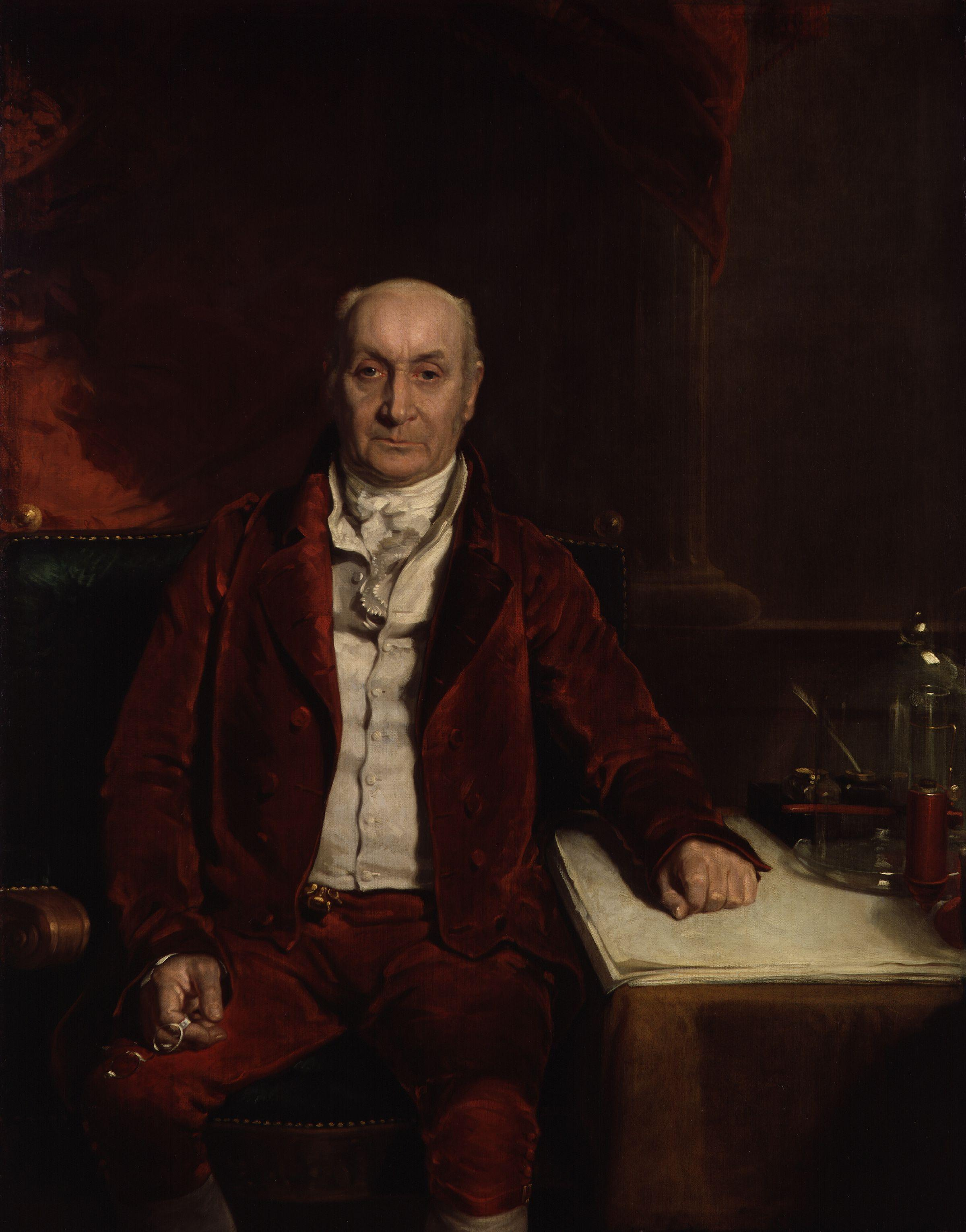 James Sadler, by unknown artist. All images in this batch are listed as "unknown author" by the NPG, who is diligent in researching authors, and was donated to the NPG before 1939 according to their website.